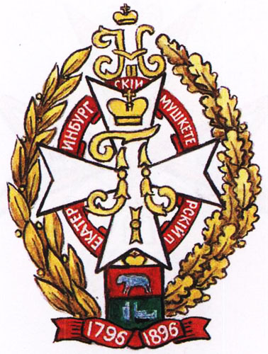 Badge of Ekaterinburgski 37-th Regiment